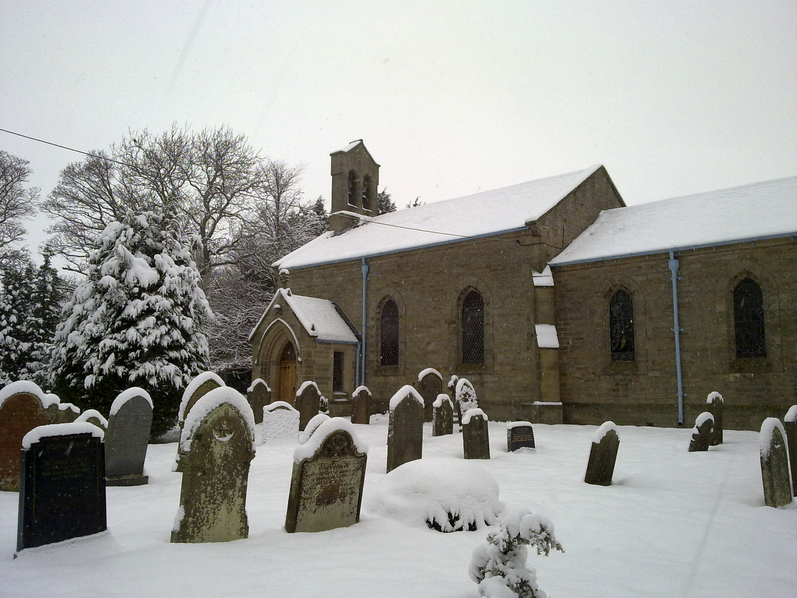 St Marys Church, Slaley